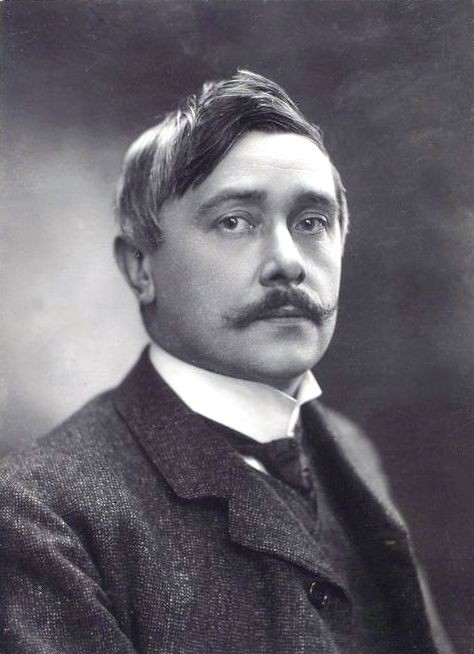 French writer Maurice Maeterlinck